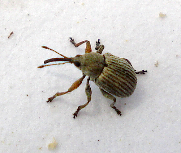 Original description: "Coleoptera Exapion sp. (ulicis?)".